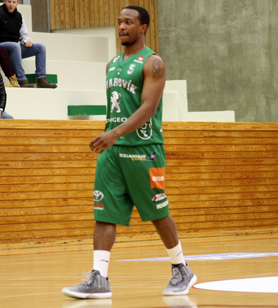 Stefan Bonneau playing for UMFN Njarðvík.